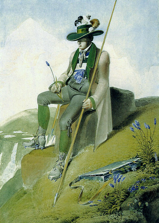 Johann Zahlbruckner, Botanist and Private Secretary of Archduke Johann of Austria. By Matthäus Loder, ca. 1820.